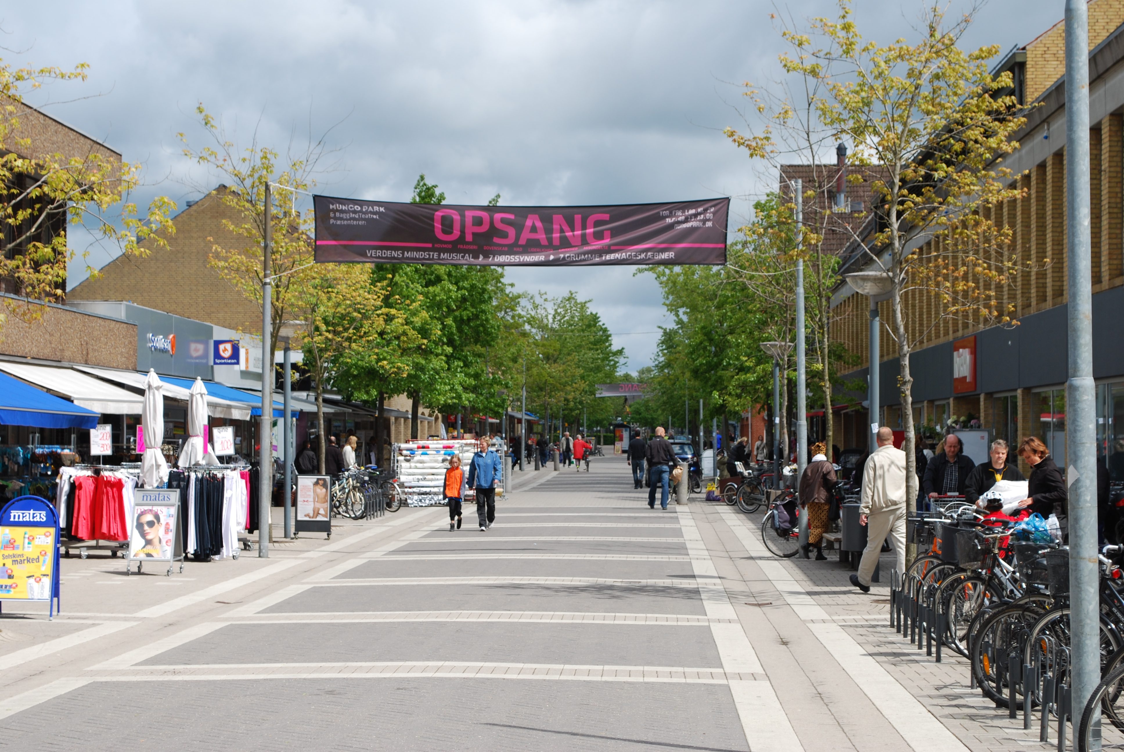 M.D. Madsens Vej, in Lillerød, municipality of Allerød, Denmark